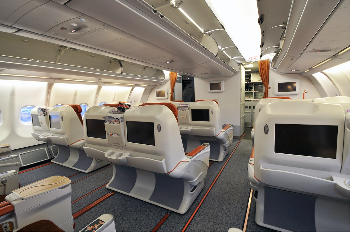 Aeroflot Airbus A330-200 business class cabin